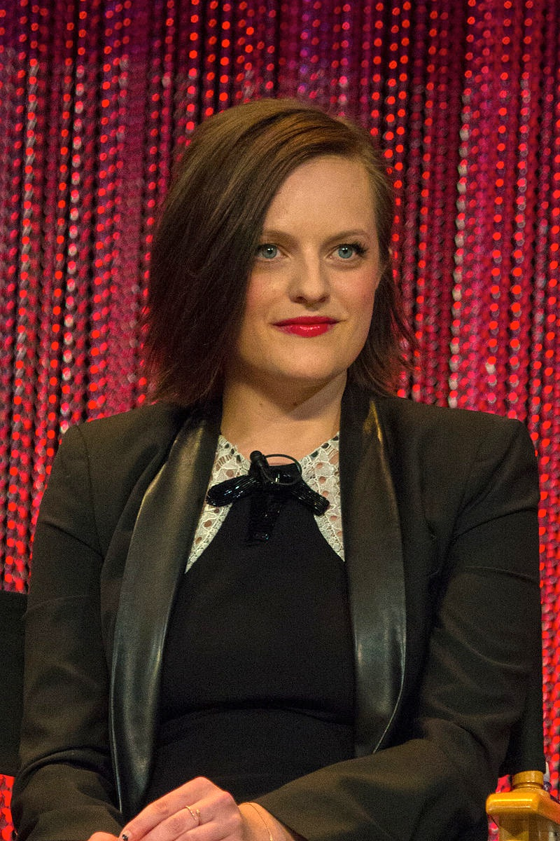 Actress Elisabeth Moss at The Paley Center For Media's PaleyFest 2014 Honoring "Mad Men"